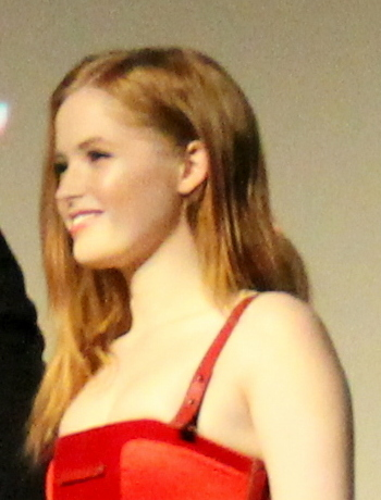 Tom Ford, Amy Adams, Aaron Taylor-Johnson, Armie Hammer, Ellie Bamber